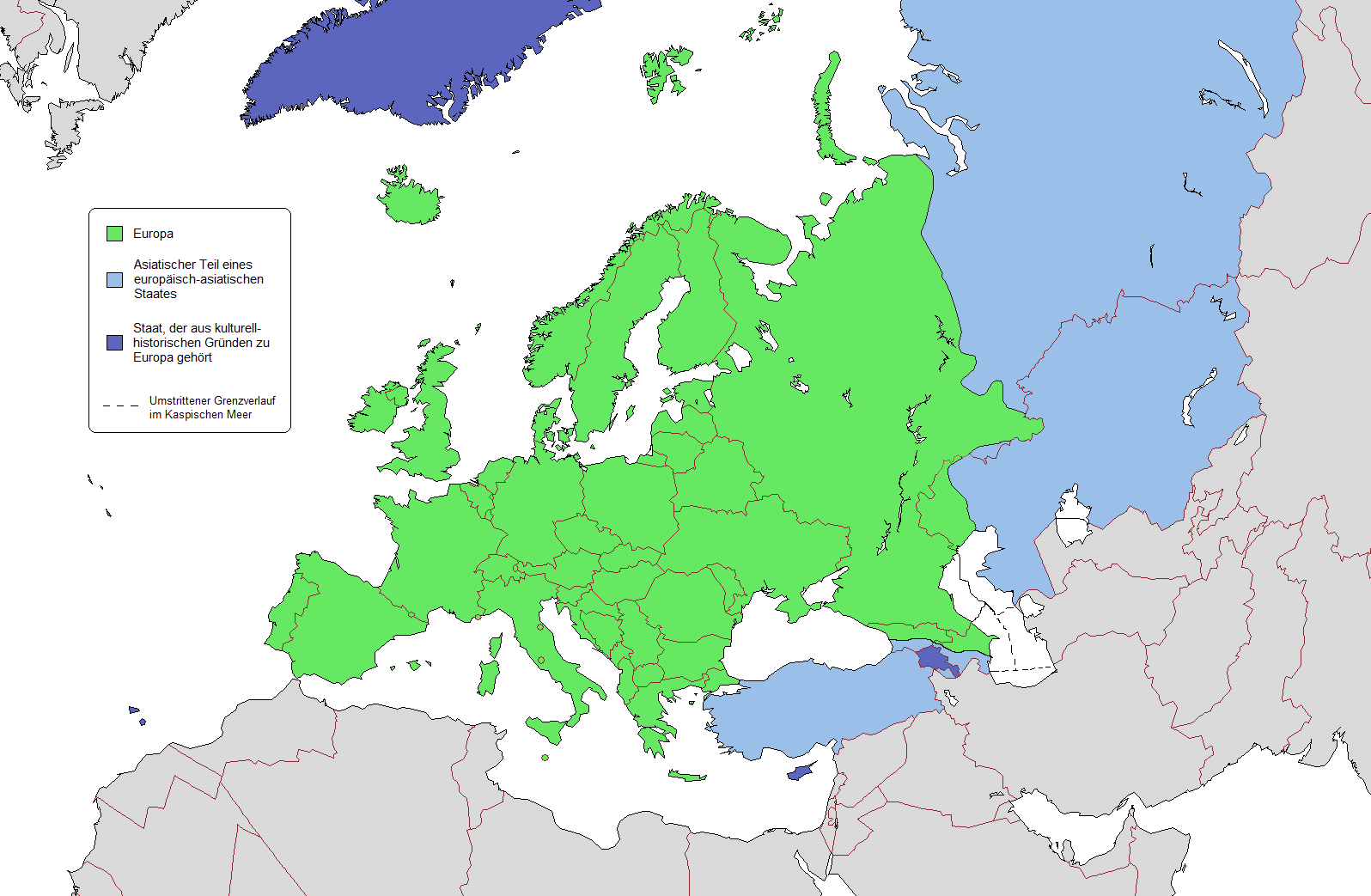 Geographical and political boundaries of Europe (2007). Note that the Caucasus watershed is not indicated correctly, it runs along Georgia's northern border.